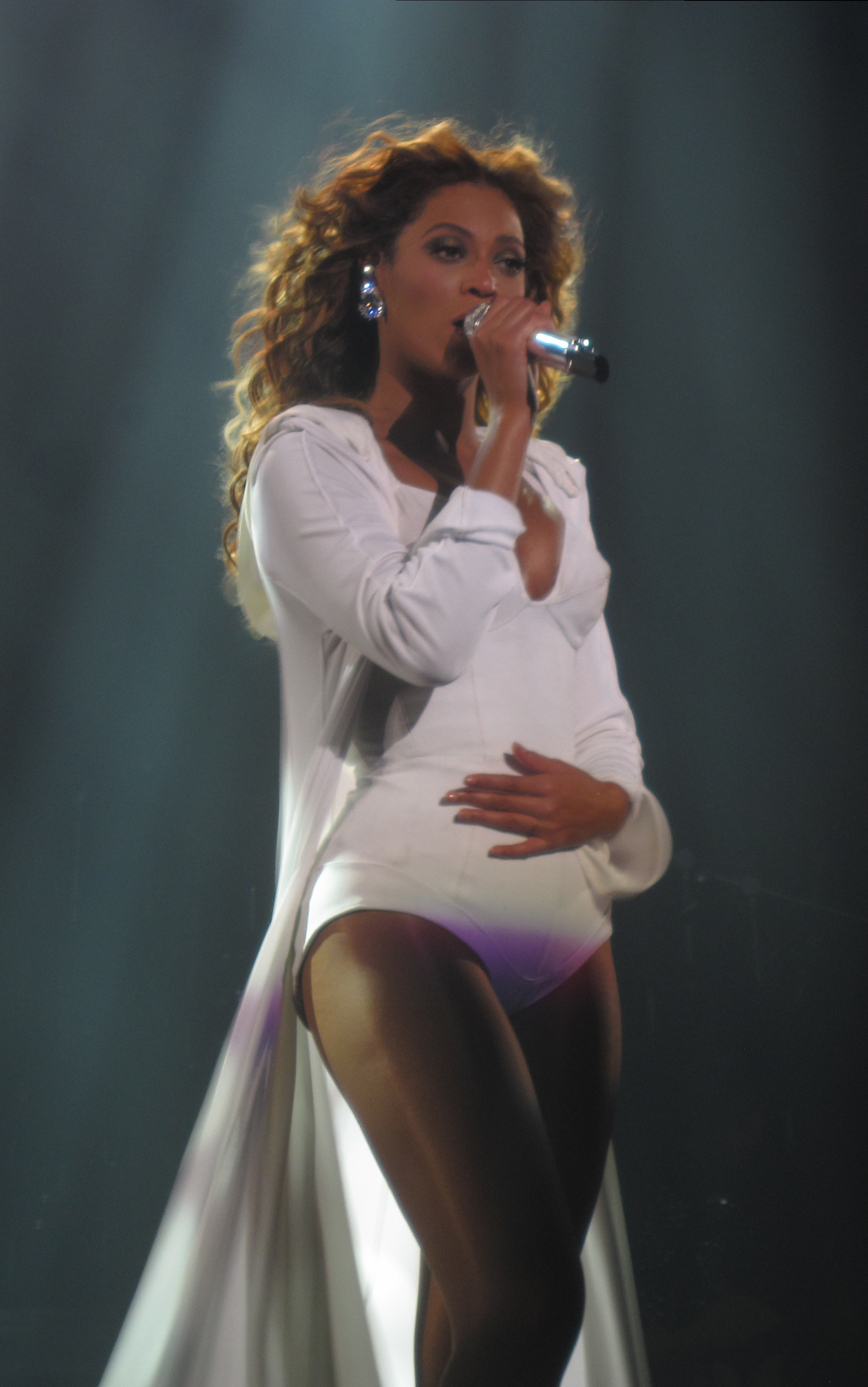 Beyoncé performing on The O2 in London.